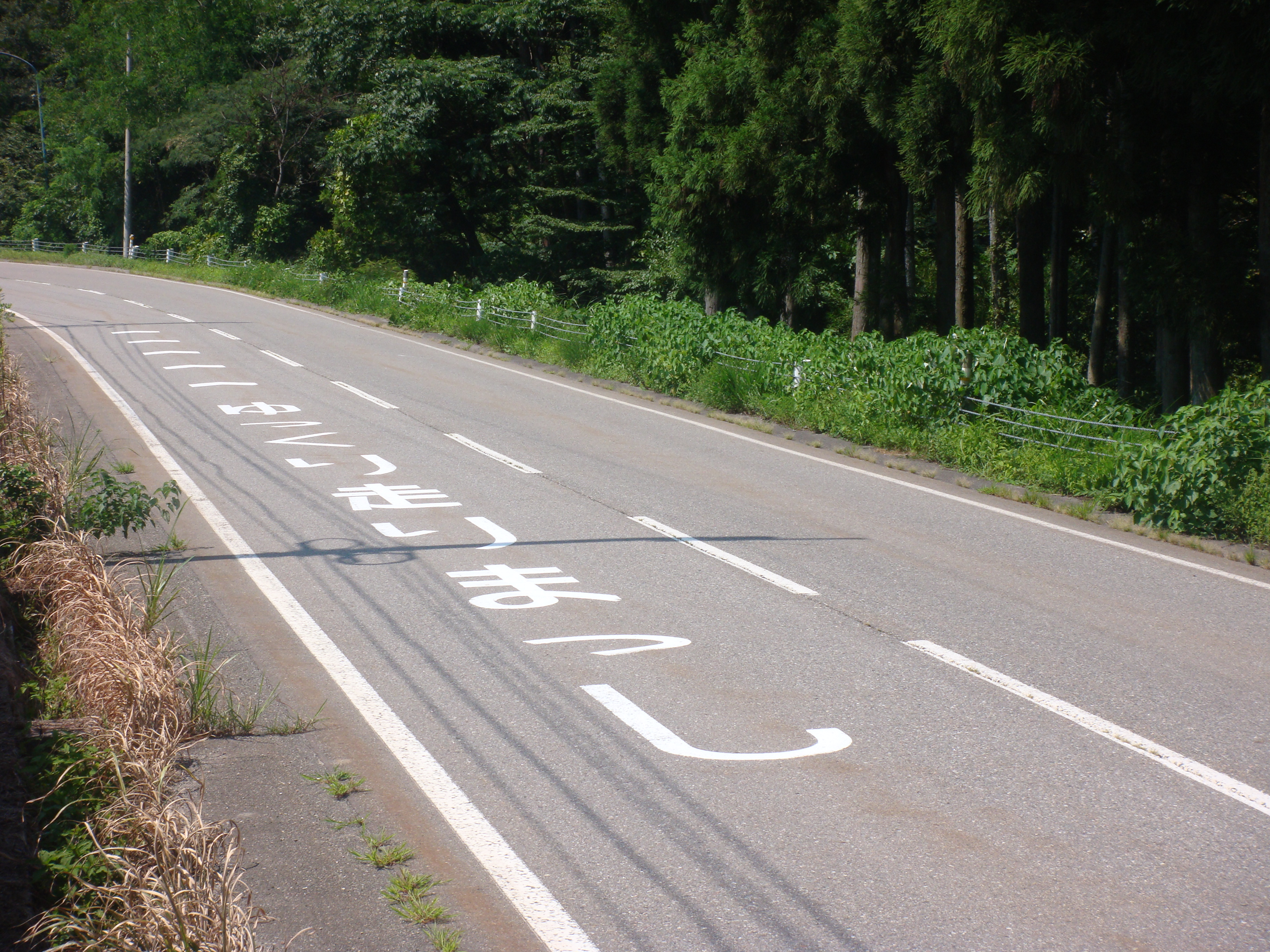 Road marking “Yukkuri hashirimasshi（ゆっくり走りまっし）”means “Slow down”. Place - Japan National Route 360 at Kamimugikuchi-machi,Komatsu City,Ishikawa Prefecture,Japan Date - August 27, 2010 Format - JPEG, 3648x2736pixel, 24bit colors Photographer - NALA Wiki (talk)